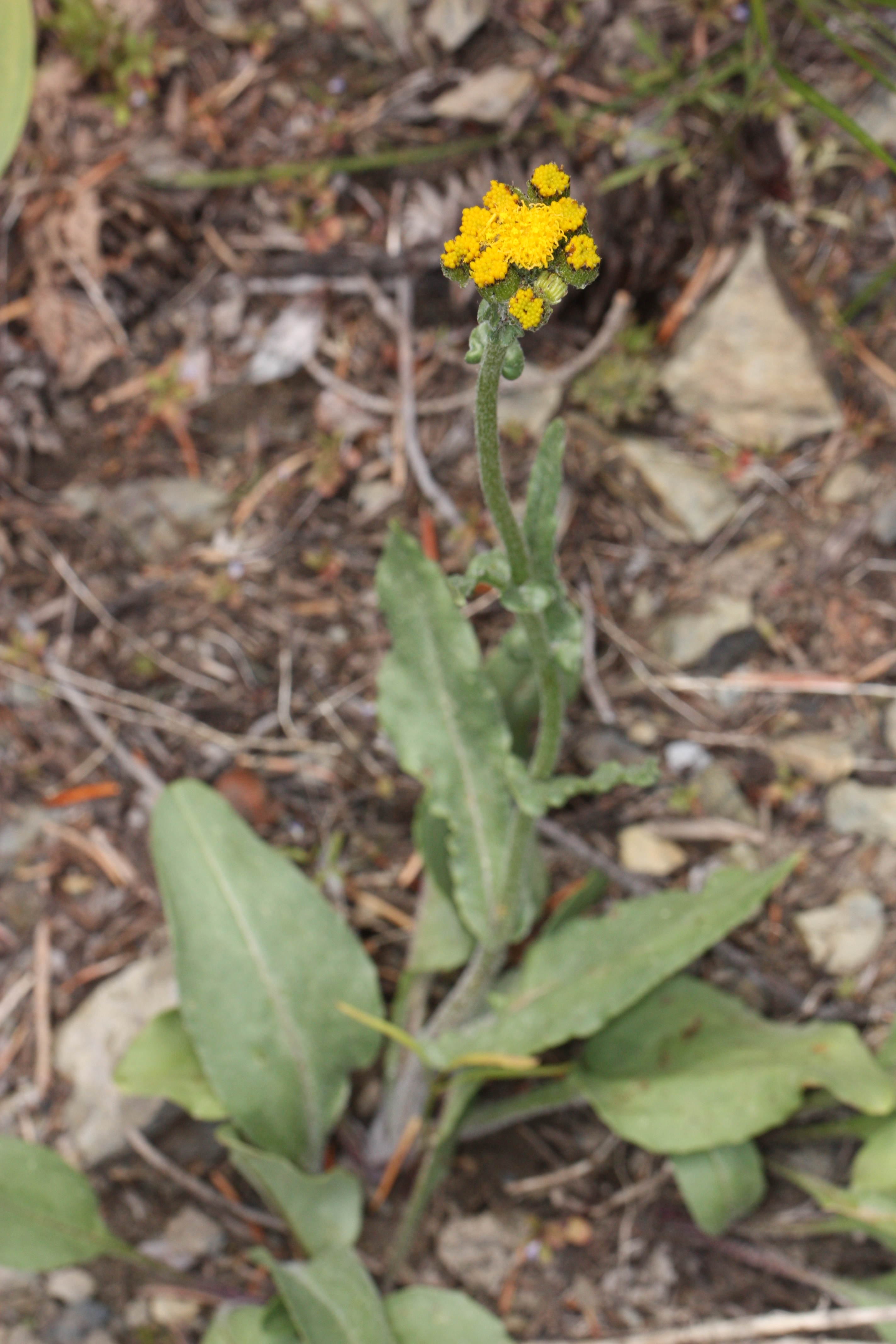 Tall Western Groundsel, Lambstongue Groundsel Identification by: Hitchcock and Cronquist, p. 548 Viewpoint location: Tronsen Ridge Trail #1204, Tronsen Ridge Viewpoint elevation: 1395 meter (4576 ft) Location source: Garmin GPSmap 60CSx Location Datum: WGS84